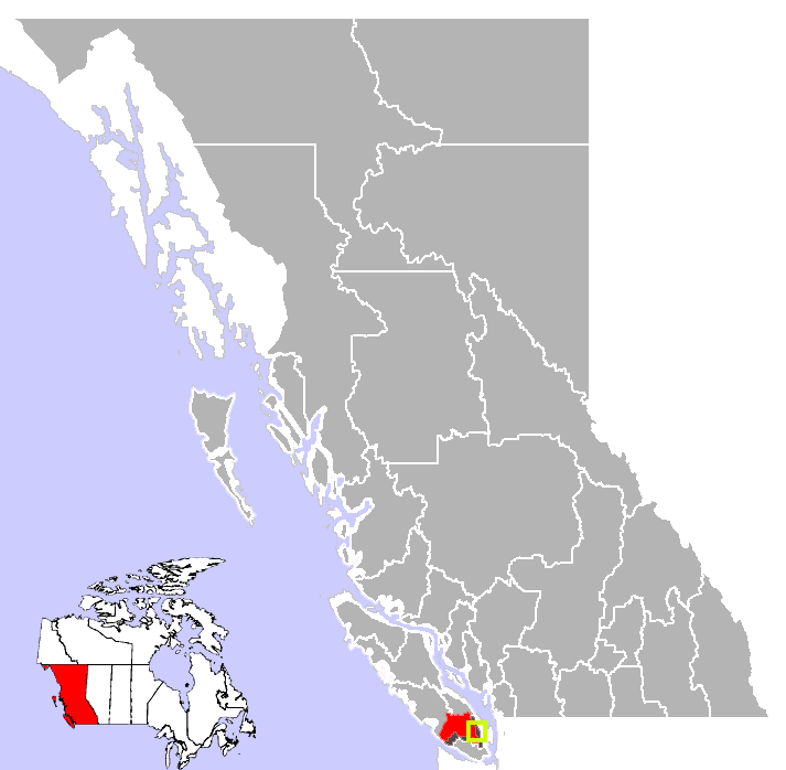 Duncan, location.